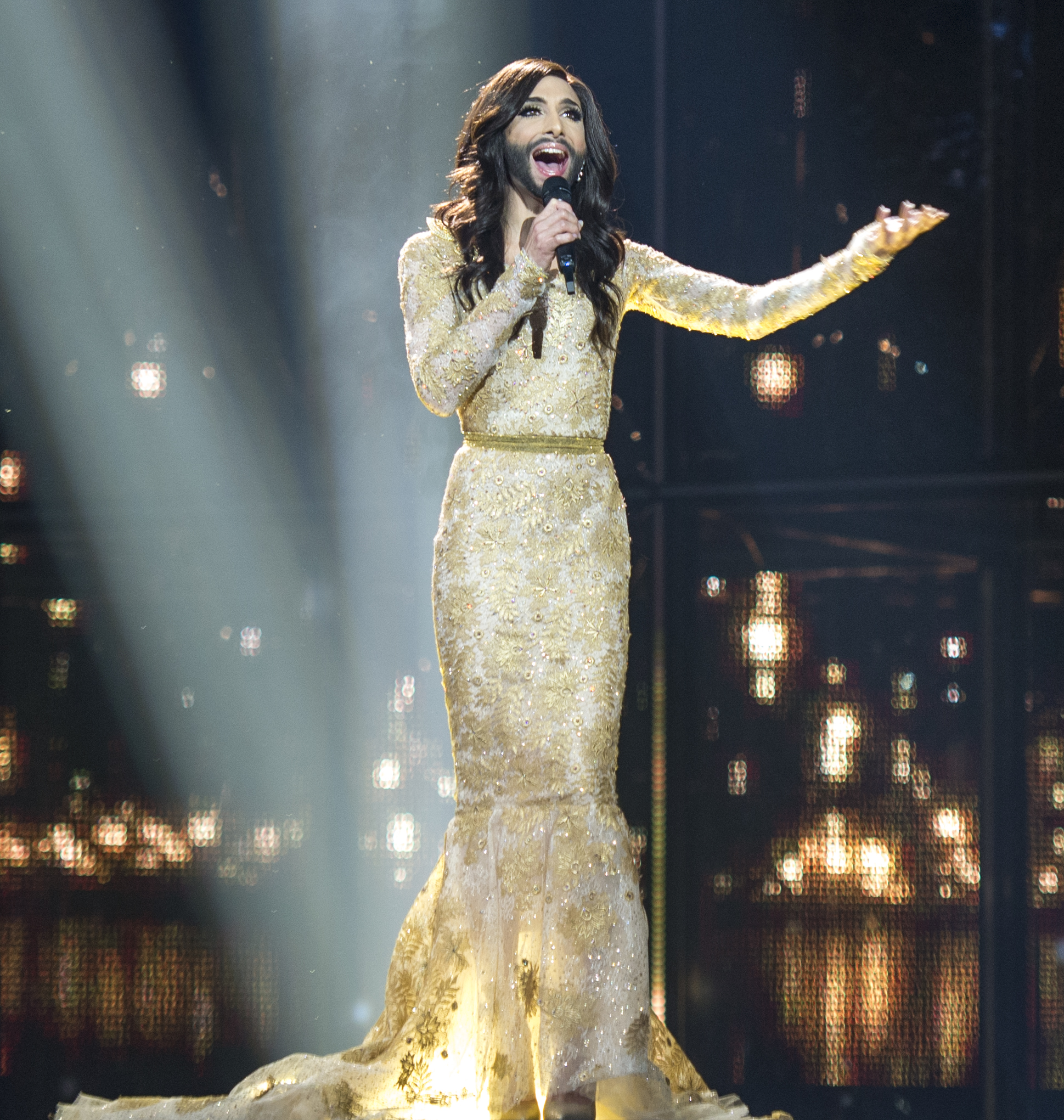 Conchita Wurst representing Austria with the song "Rise Like a Phoenix" during the first dress rehearsal of the final of the Eurovision Song Contest 2014 Copenhagen. (Help translate this text)